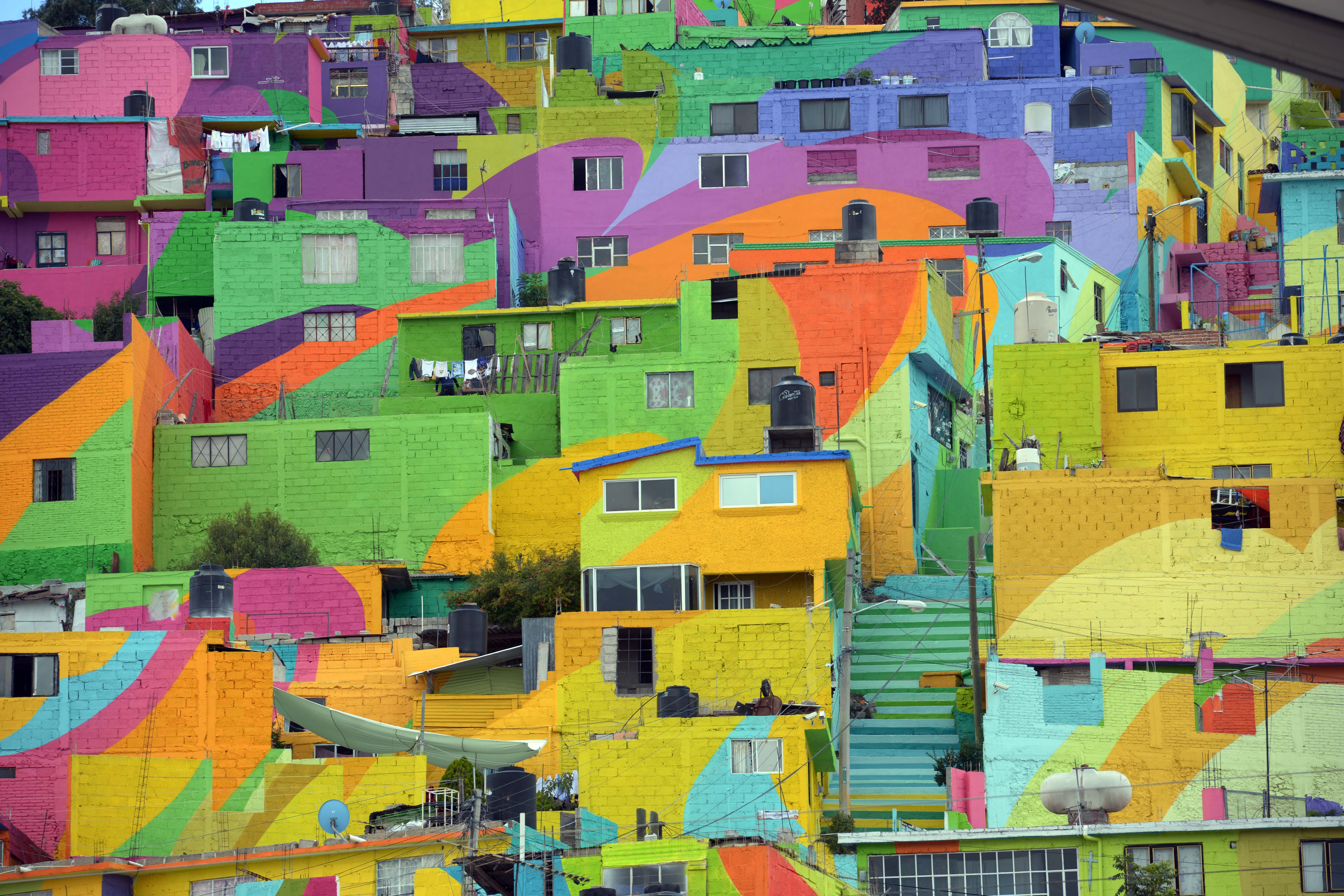 Inauguración del Macromural “Pachuca se Pinta”. Pachuca, Hidalgo. 31 de agosto de 2015.